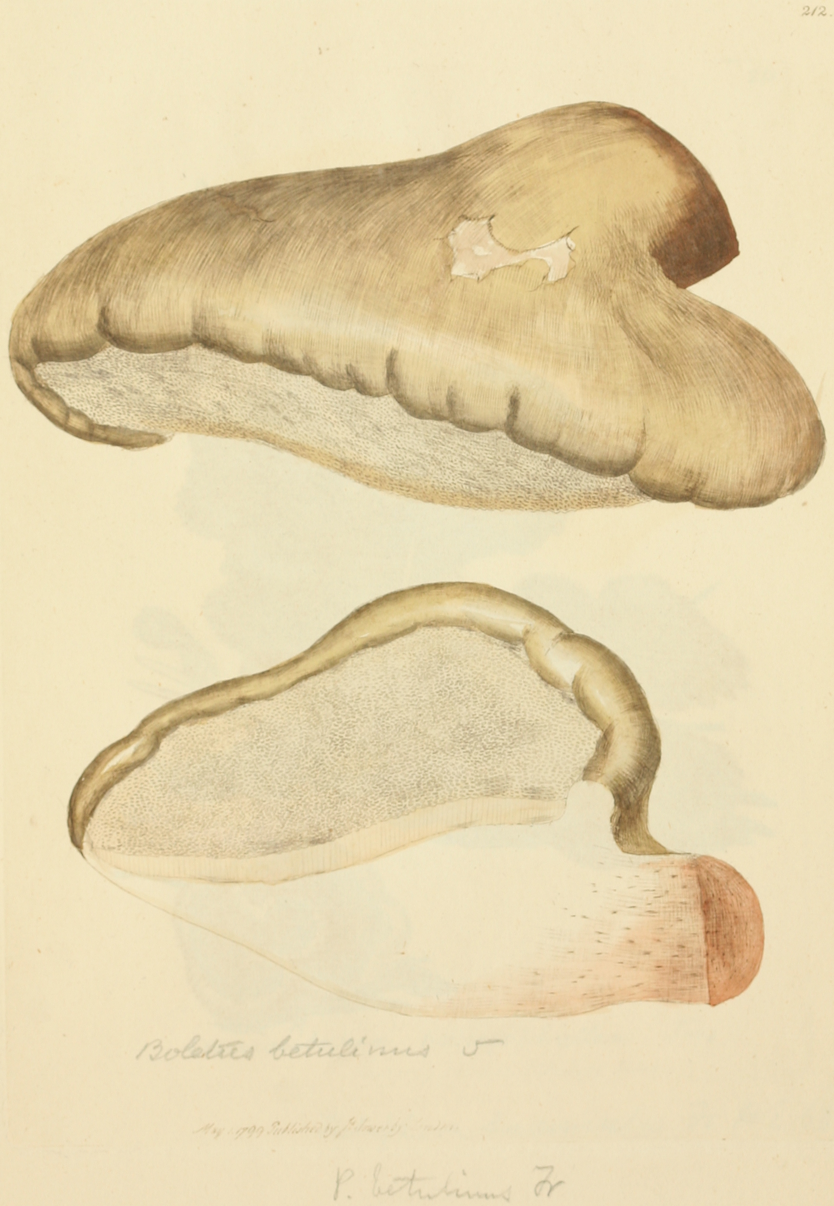 This is a plate from James Sowerby's Coloured Figures of English Fungi or Mushrooms.